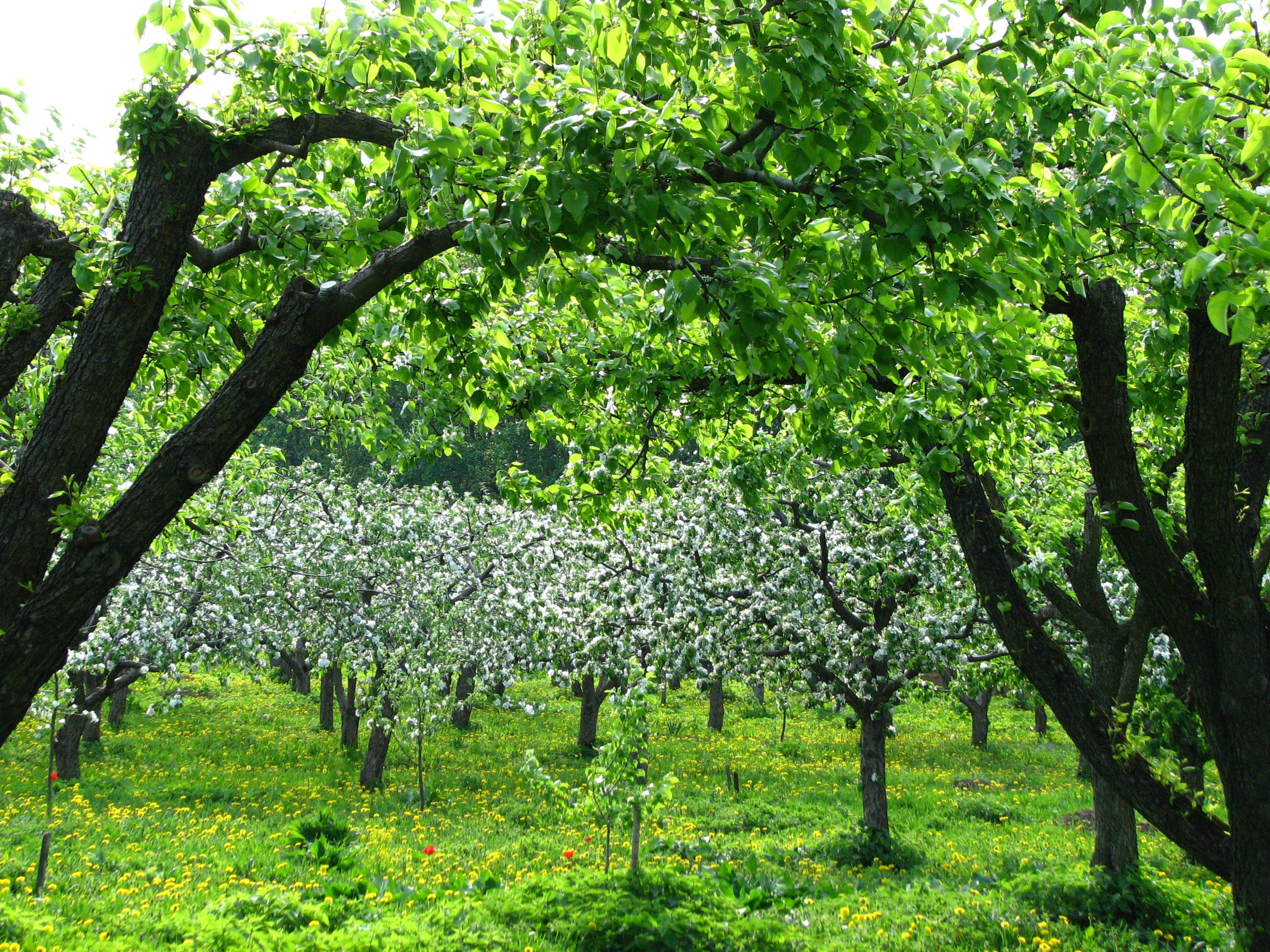 Apple orchard in the Botanical Garden of Moscow State University (main area on the Sparrow Hills), Moscow. Spring.